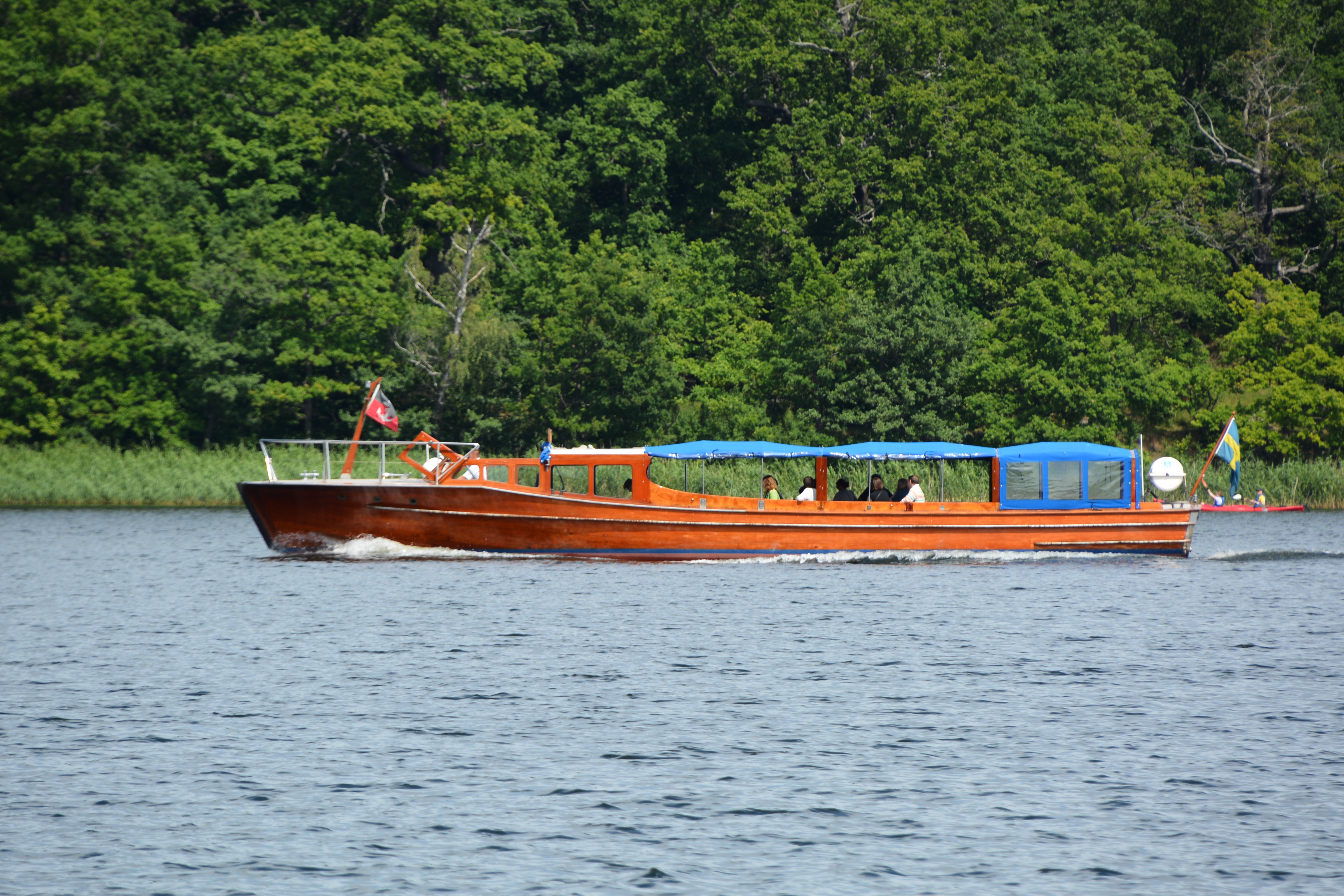 M/S Stegeholm, Swedish heritage passenger ship, Stockholm, at Brunnsviken